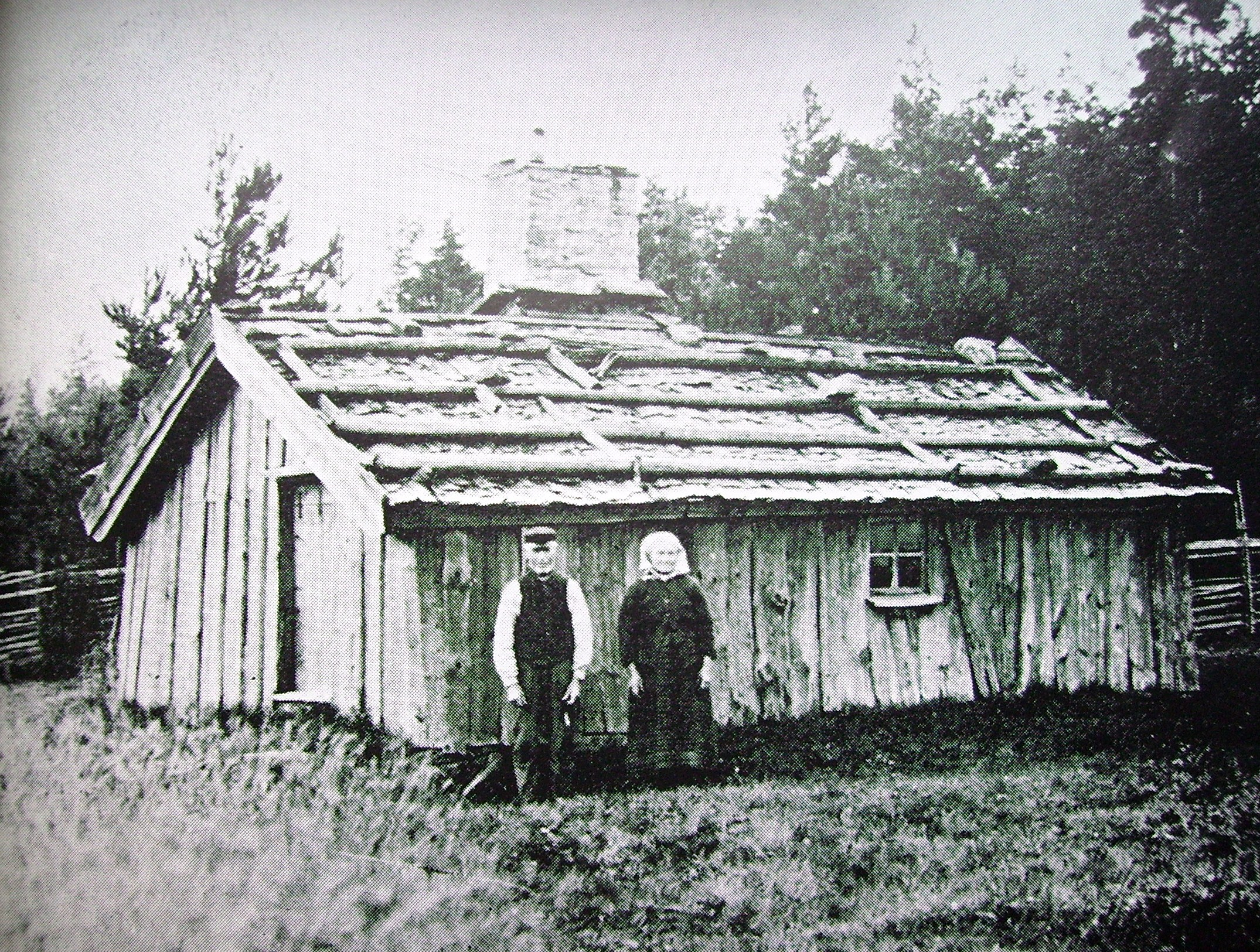 Picture of cabin in Västergötland